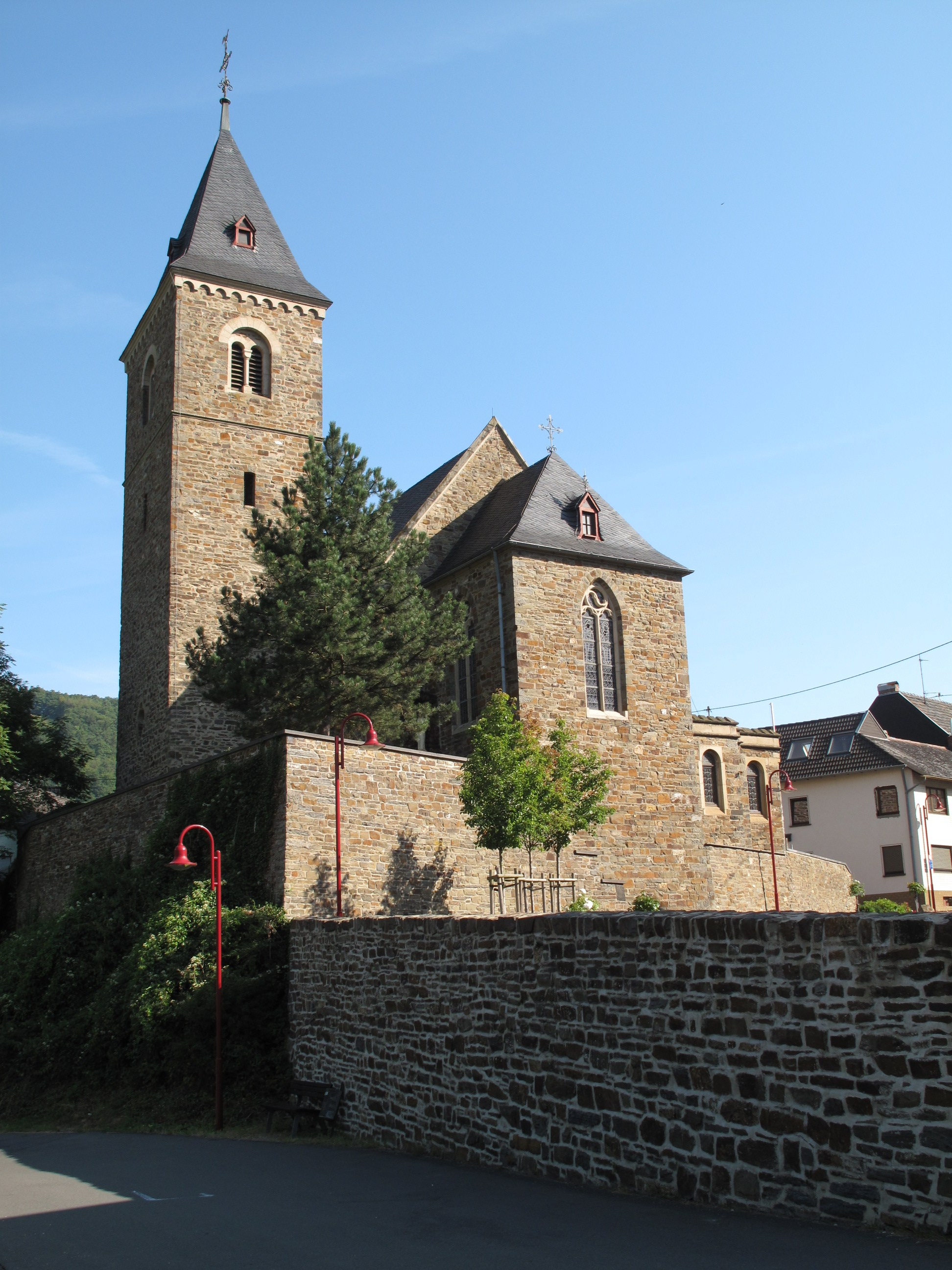 Hönningen, parish church of Saint Kunibert